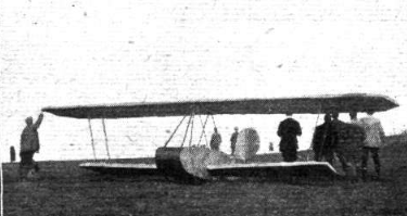 Dresden Stehaufchen at the 2nd Rhön contest, 1922